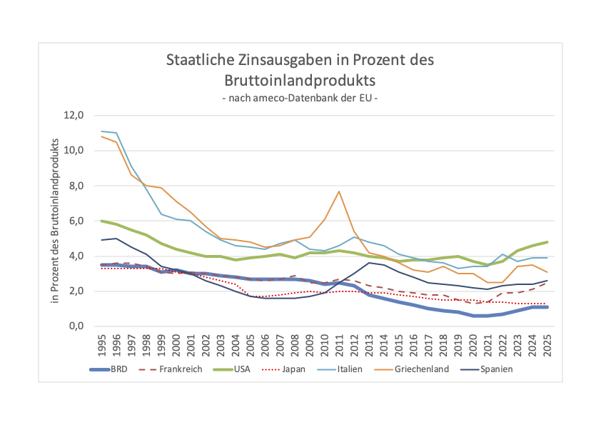 actual interest payments by general government in percent of GDP, selected countries. Source of data: Ameco data bank.